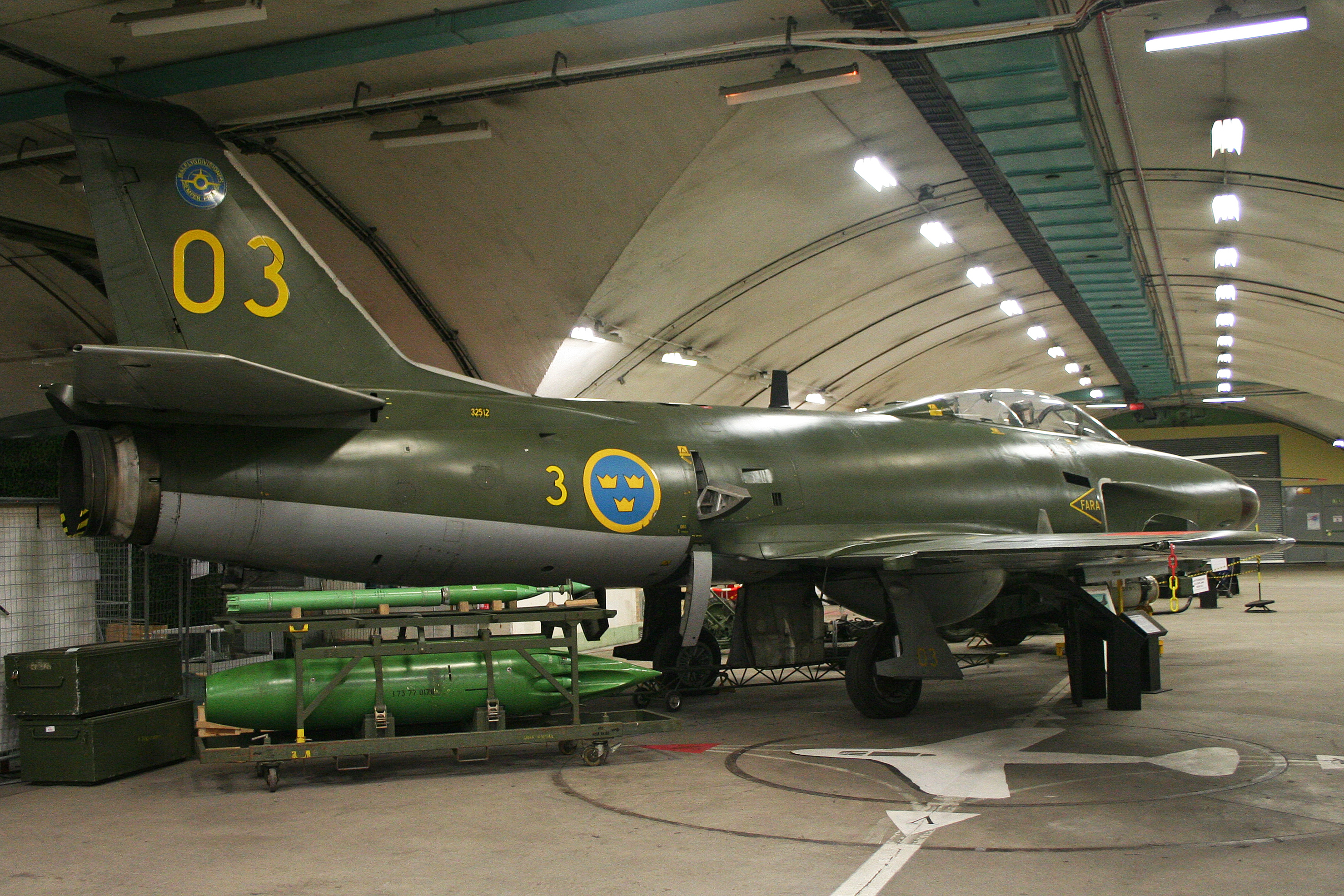 msn 32-512. The Aeroseum, Gothenburg Save. 02-6-2012